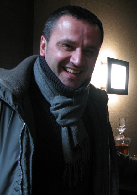 Ilian Djevelekov during the shooting of his feature film